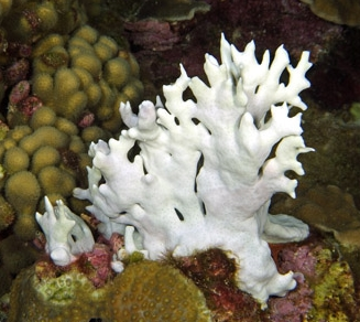 Branching Fire Coral